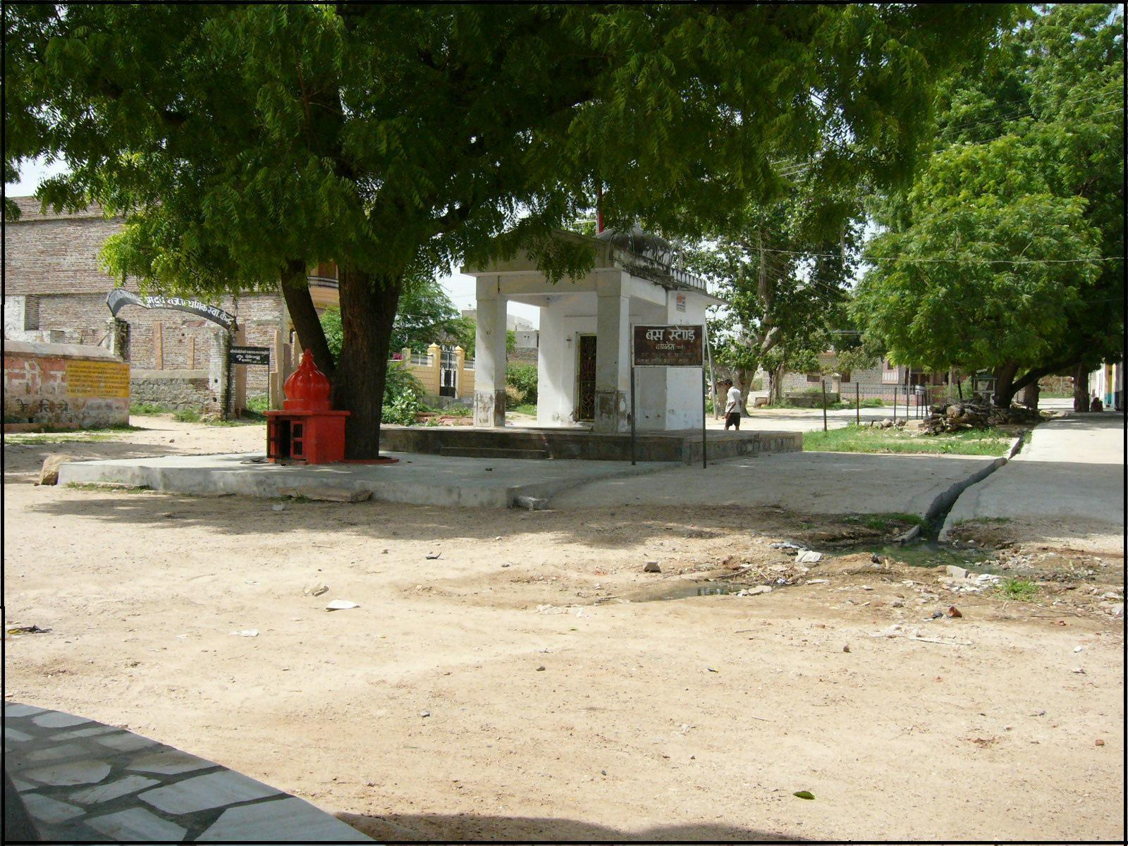 Bamnera Bus stop